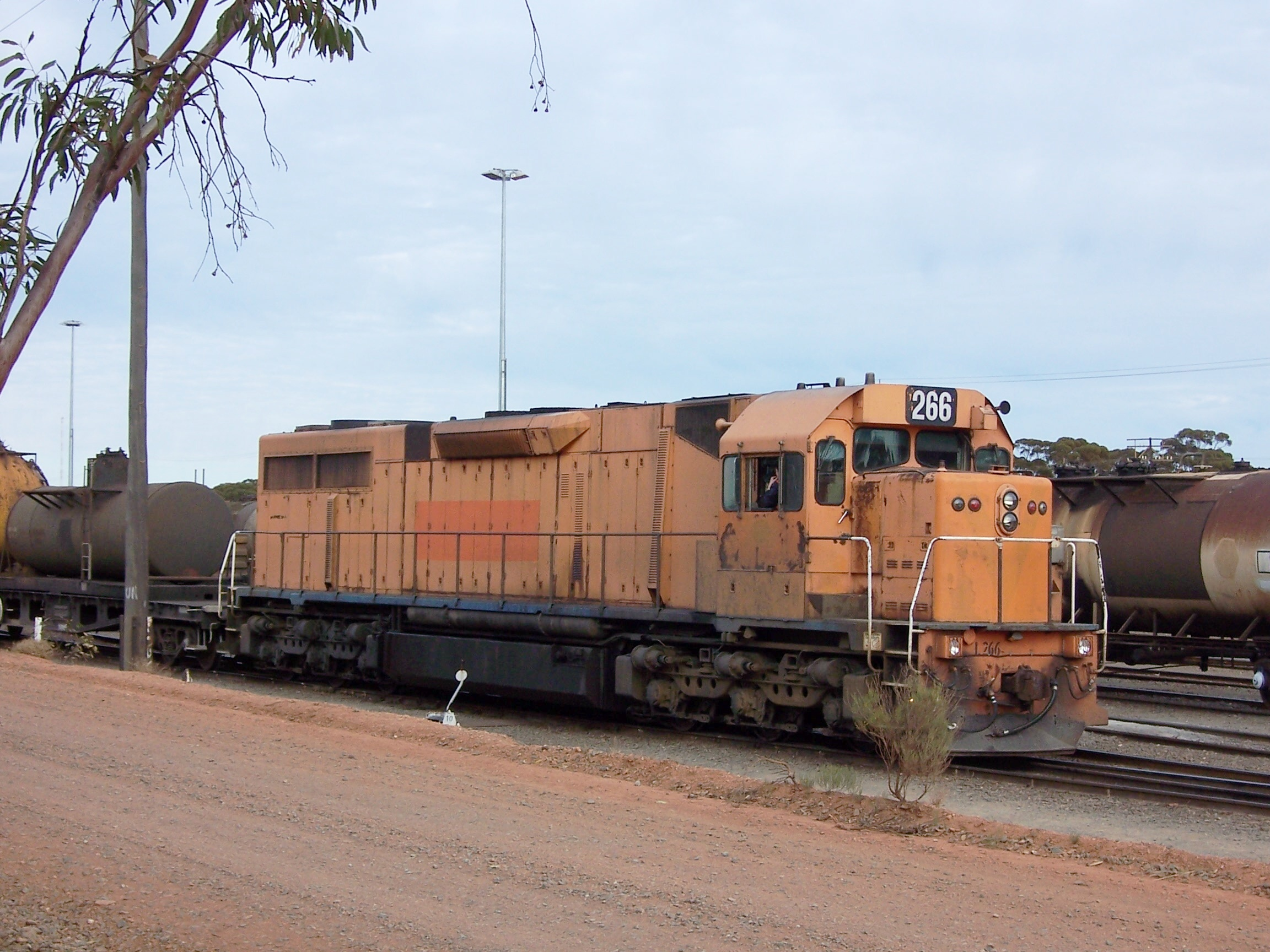 Ex-WAGR L class diesel locomotive no. L266 (still in basic Westrail orange livery) at Kalgoorlie, Western Australia.